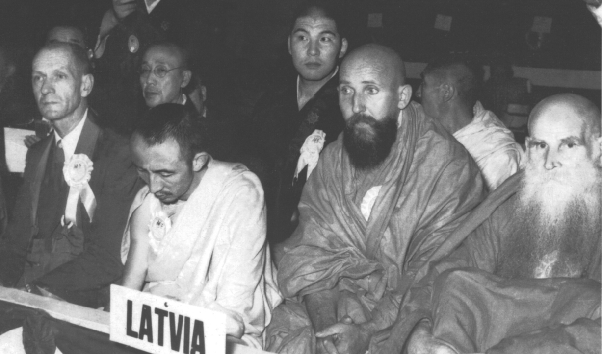 Martin Steinke (German buddhist delegate), Kushok Bakula Rinpoche, Friedrich Voldemar Lustig and Karl Tõnisson (a native of Estonia Este, latv.: Kārlis Tennison, russ.: Карл Тыниссон, ordained as Vahindra). Those two resided in a Burmese temple since 1949 and represented Latvia as delegates at the 1954 congress of the World Buddhist Federation in Rangoon 1954 at the opening of the 6th buddhist council.